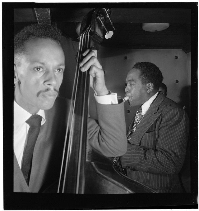 Tommy Potter, Charlie Parker and Max Roach (covered up), Three Deuces, NYC, ca. August 1947. Photography by William P. Gottlieb